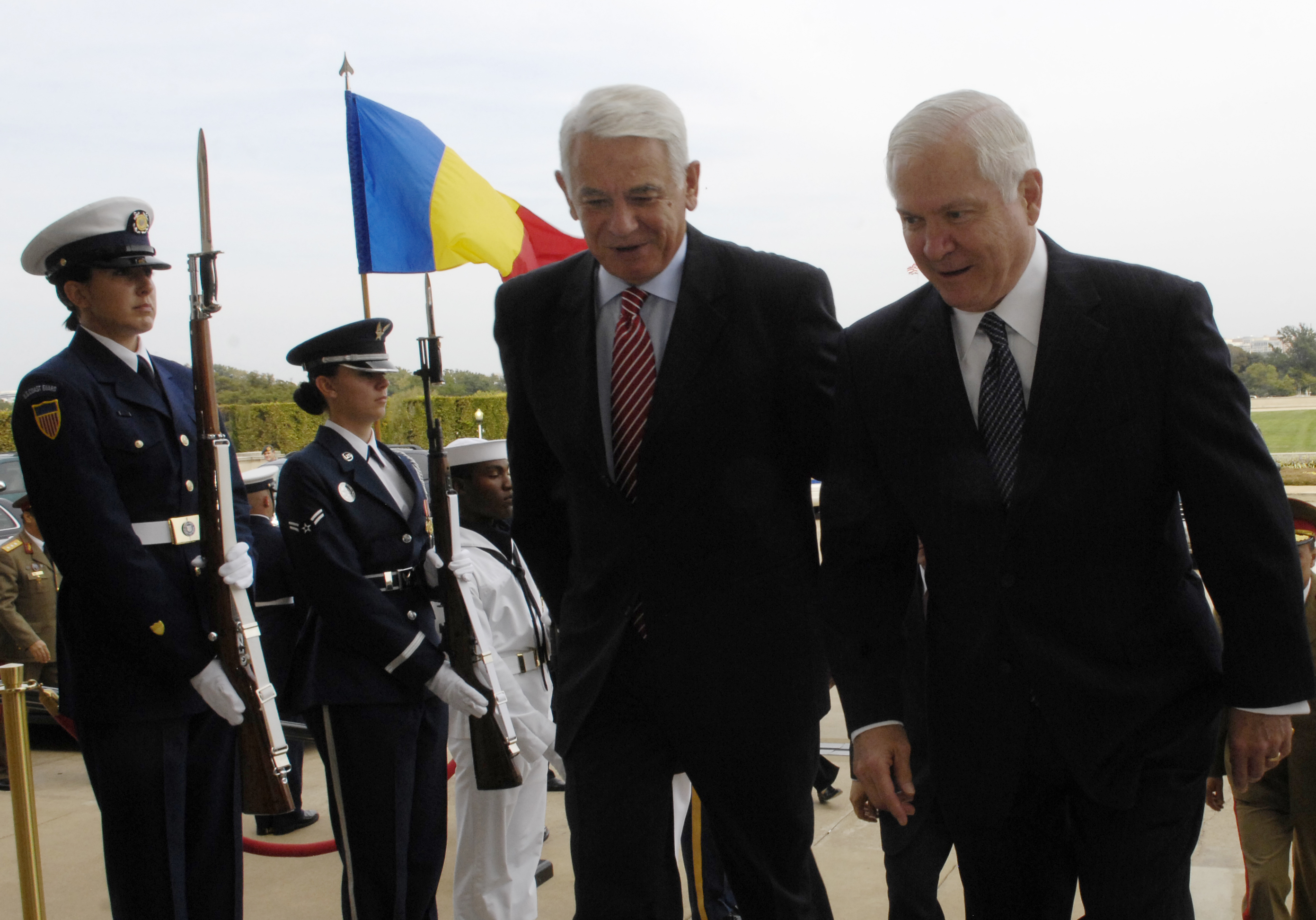 U.S. Secretary of Defense Robert M. Gates escorts Romanian Minister of Defense Teodor Melescanu through an honor cordon into the Pentagon.